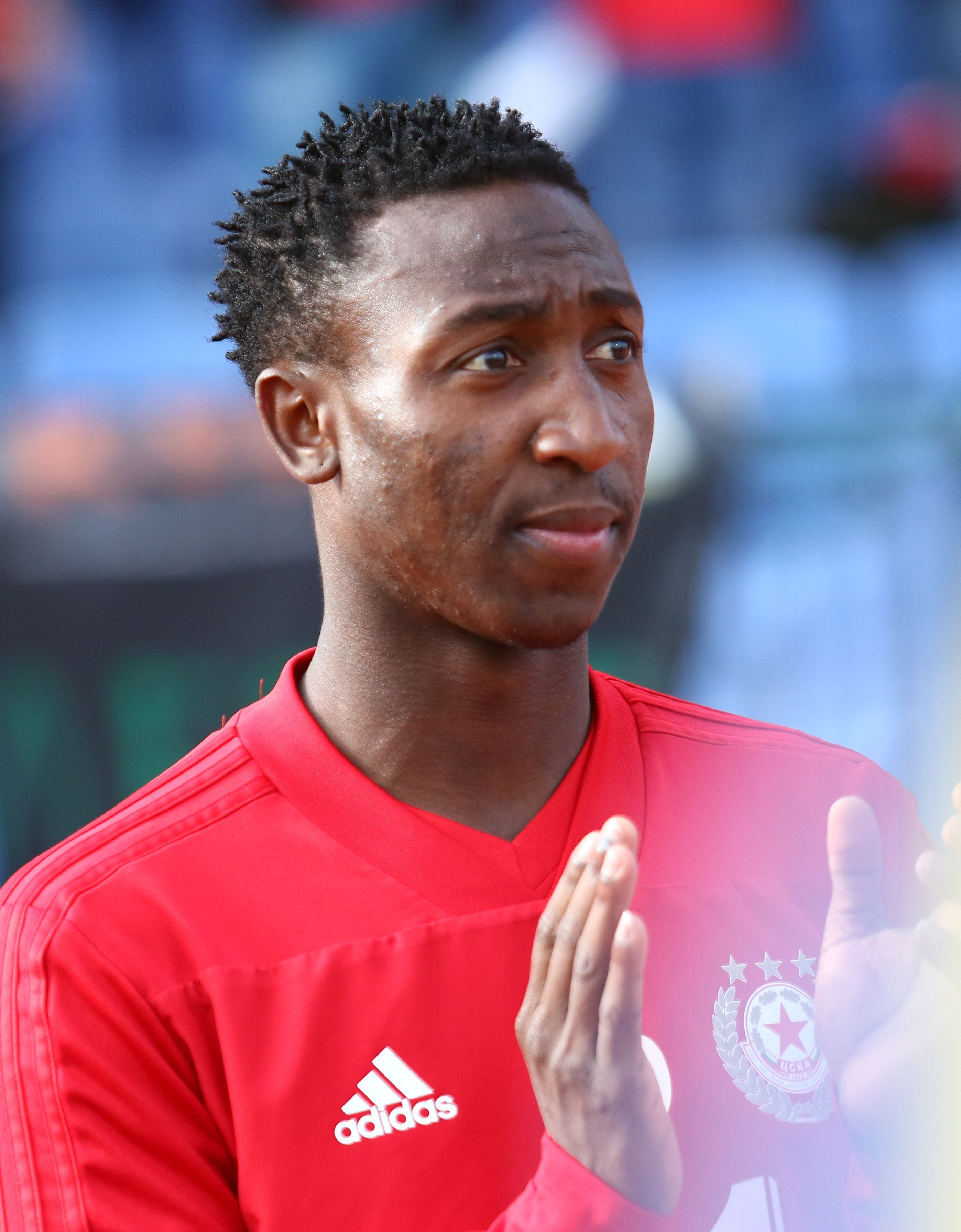 Janio Bikel Figueiredo da Silva (born 28 June 1995) - Portuguese footballer who plays as a midfielder for CSKA Sofia in the Bulgarian First League. He formerly played for SC Heerenveen and NEC.